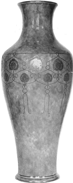 Prize for the Olympic 6M starting in 1908. Given by the French President/Government